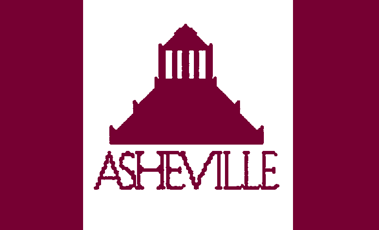 The is the city of Asheville, North Carolina's Flag. The Crew of USS Asheville use this as their Battle Flag. I created this image using Microsoft Paint. I was unable to find this image anywhere on the internet.